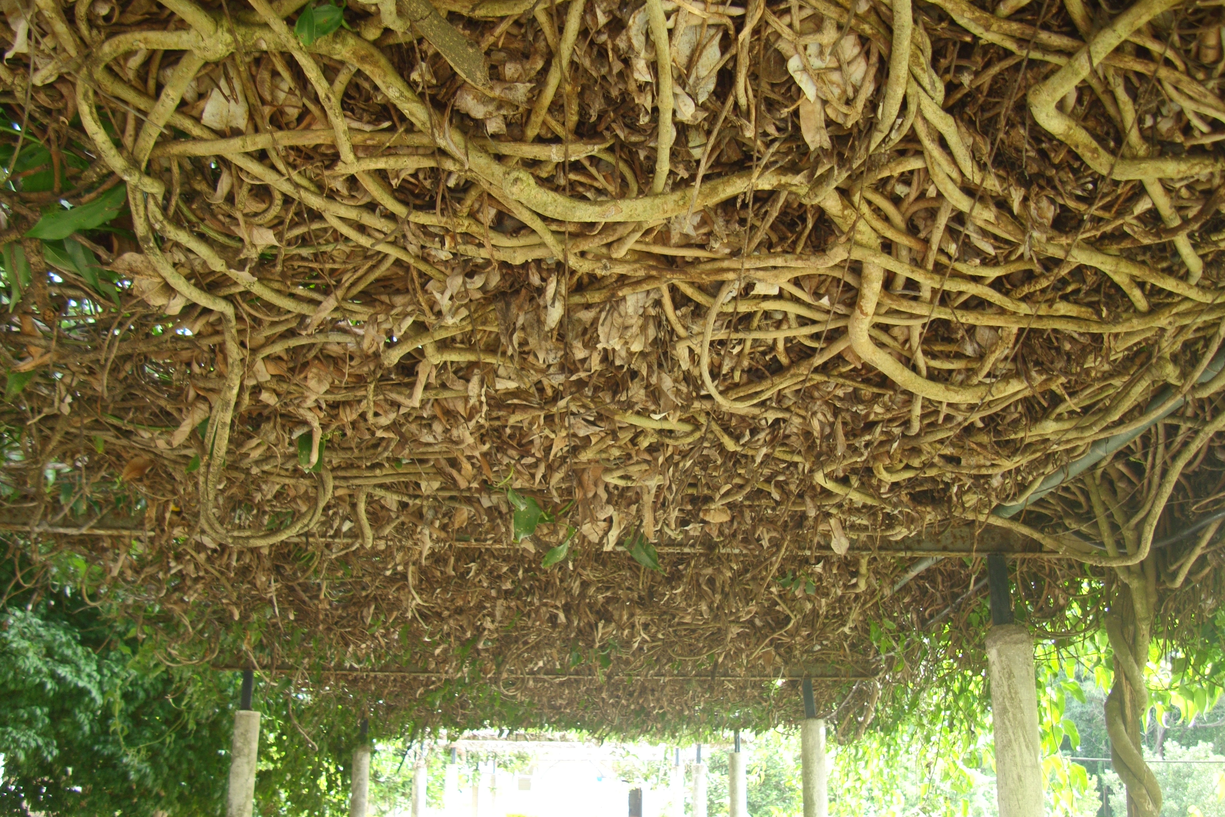 Mikania glomerata